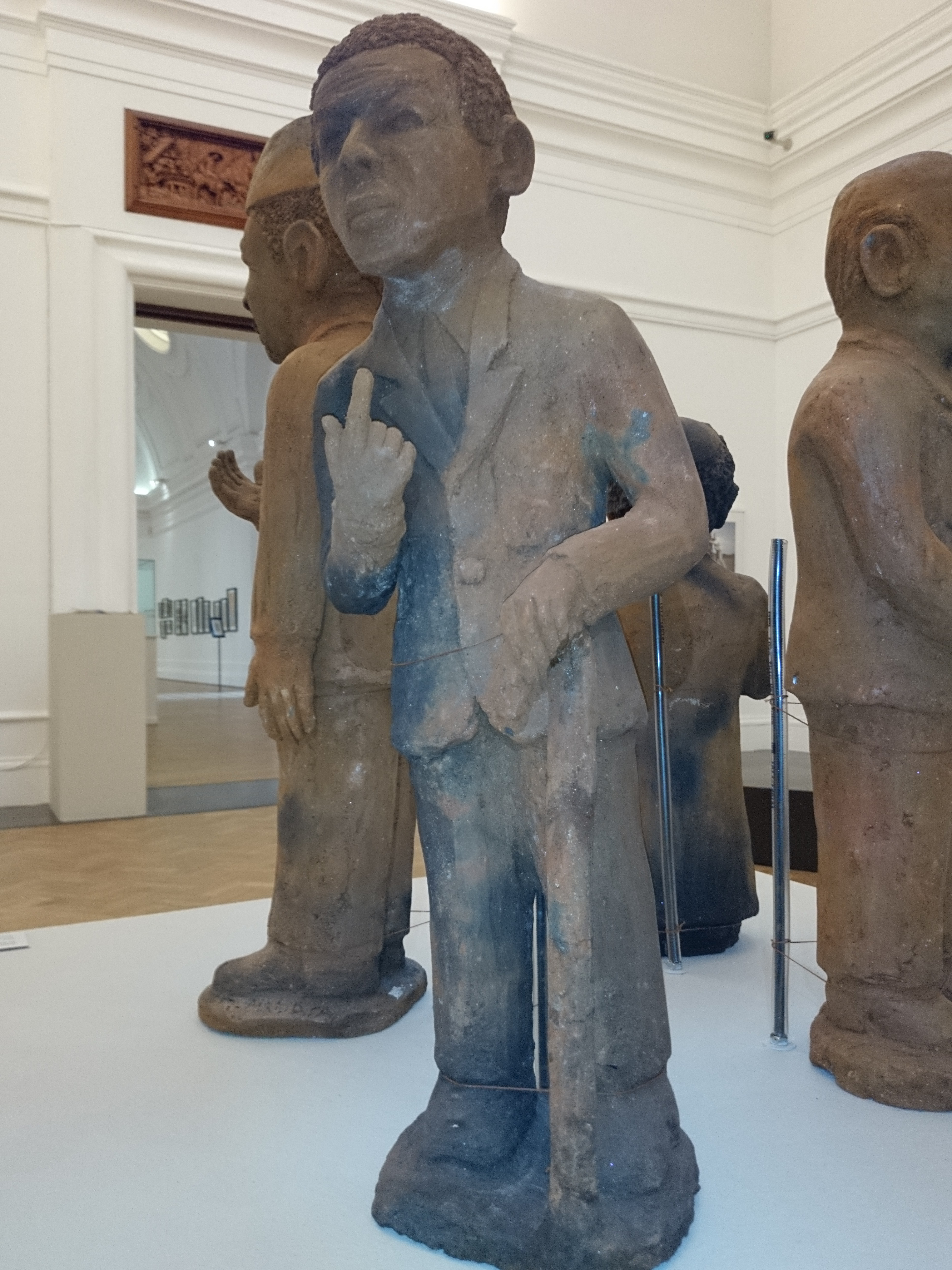 Noria Mabasa b.1938. 2004, Bisque-fired clay, presented by the Head Office of the Victoria and Alfred Waterfront